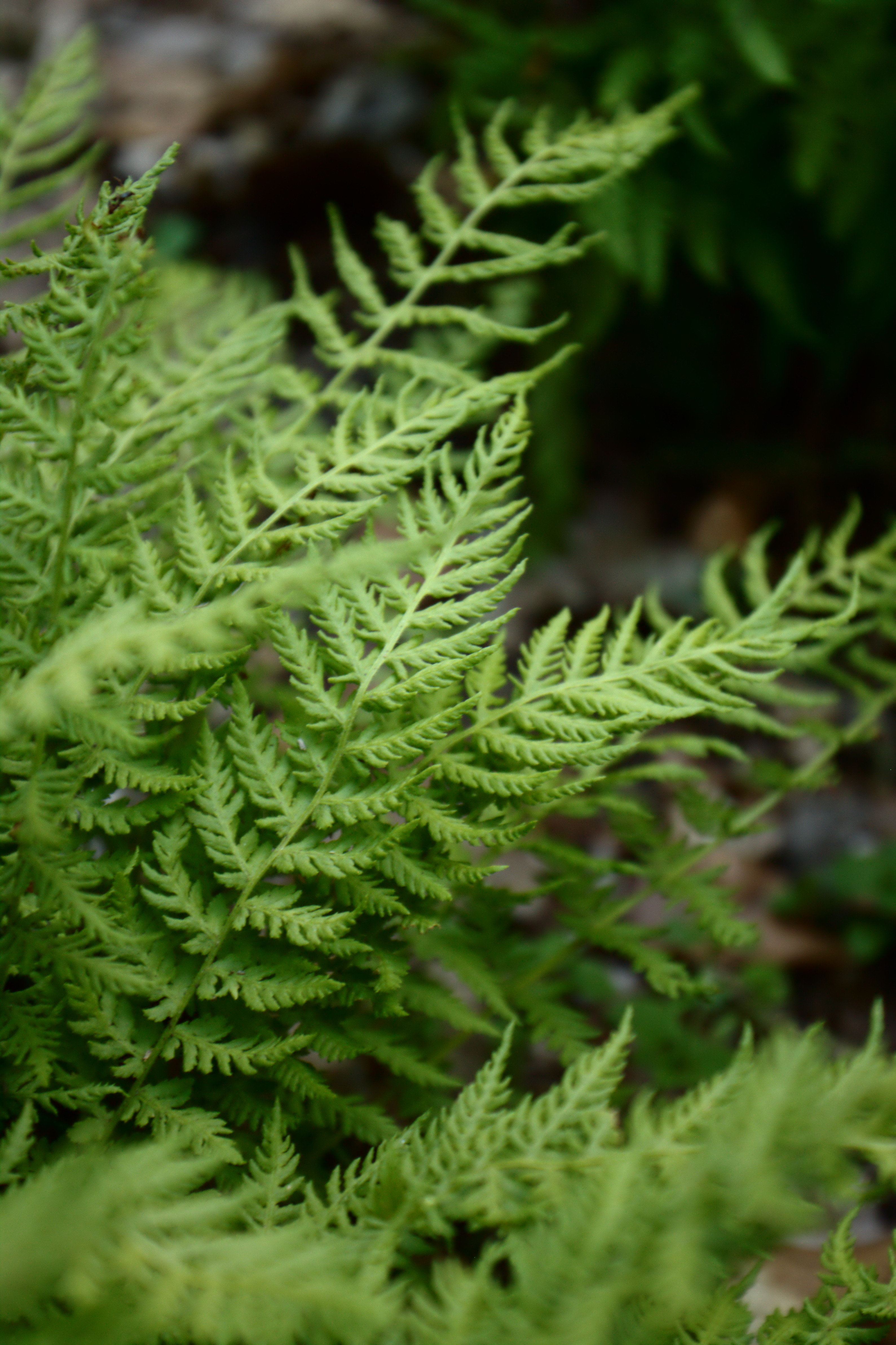 Woodsia fragilis in the Wojsławice Arboretum, Poland